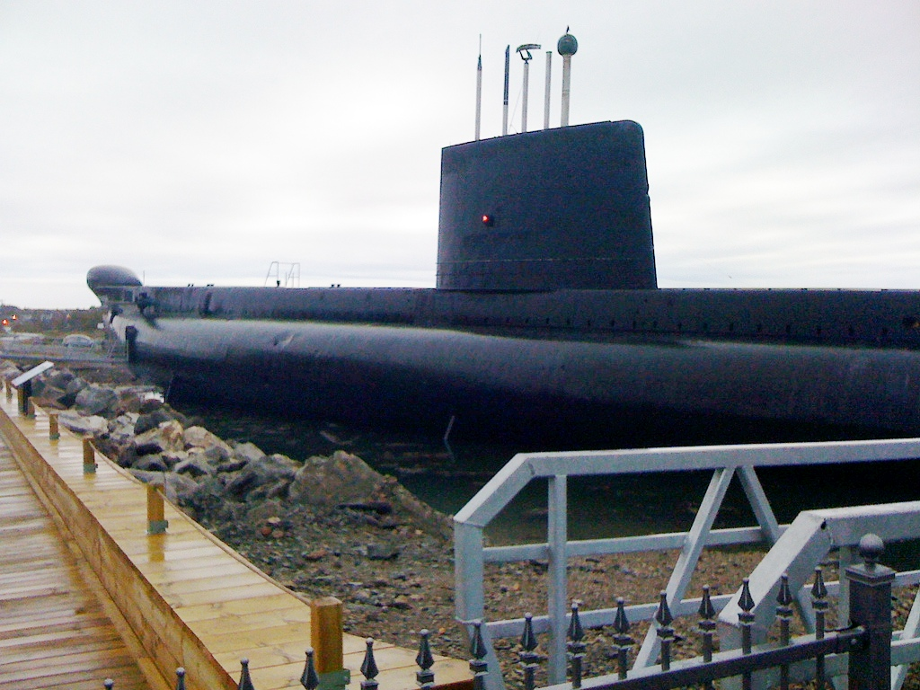 Skywalk for the visitors of the Onondaga submarine museum